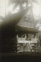 Sopo godang (Meeting hall) di Maga, Mandailing, Tapanuli